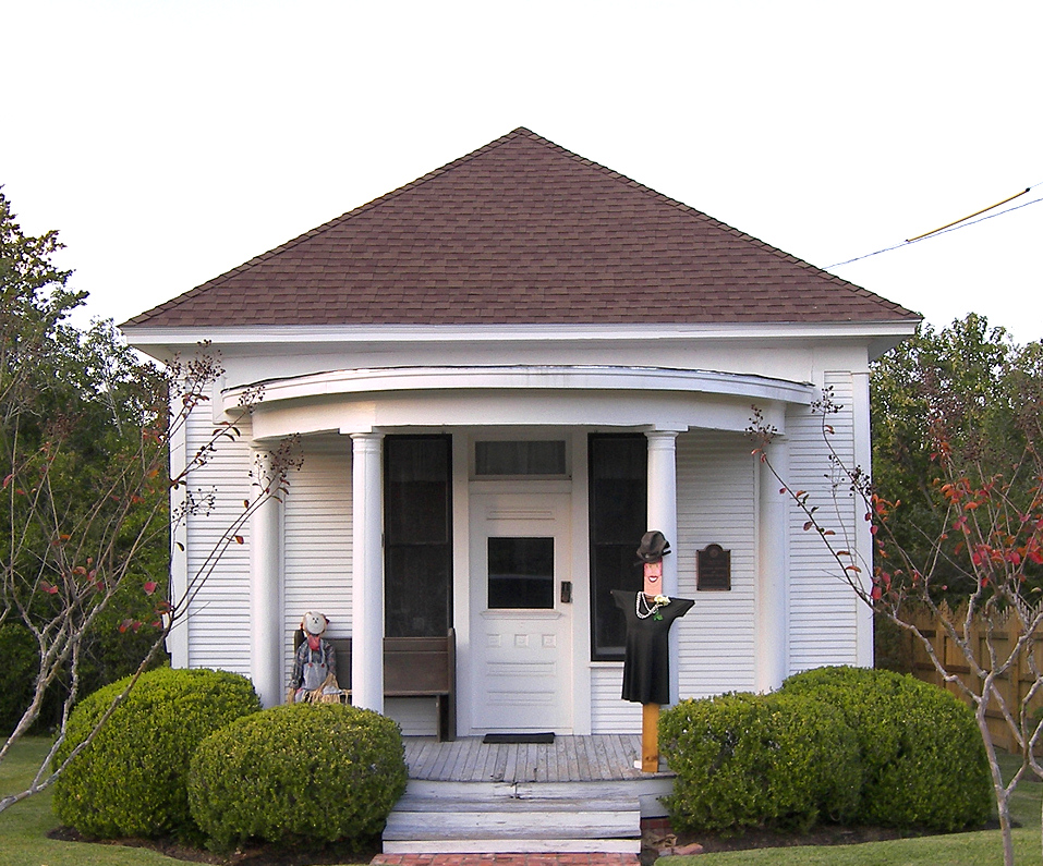 The Chappell Hill Circulating Library located in Chappell Hill, Texas, United States. The building was listed on the National Register of Historic Places on February 20, 1985.